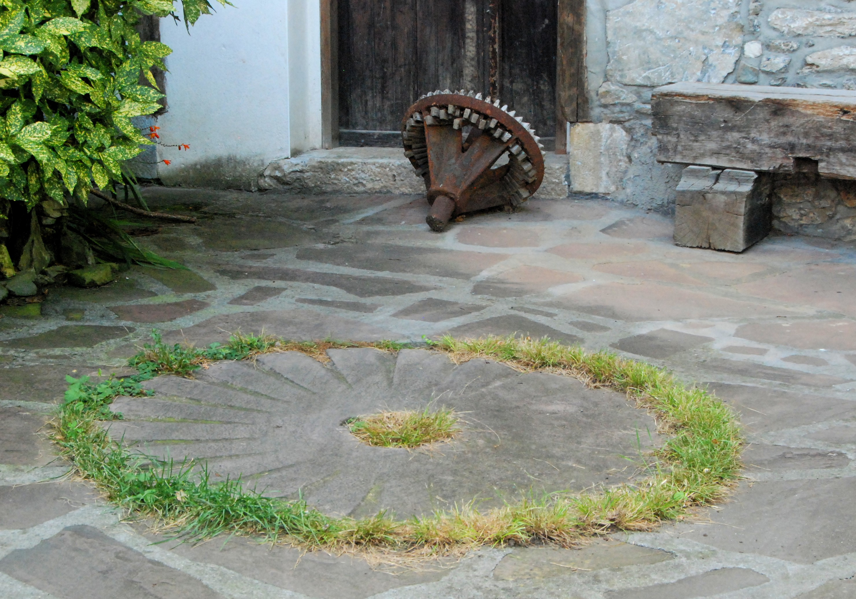 Detail of the village of Arantza in Navarre